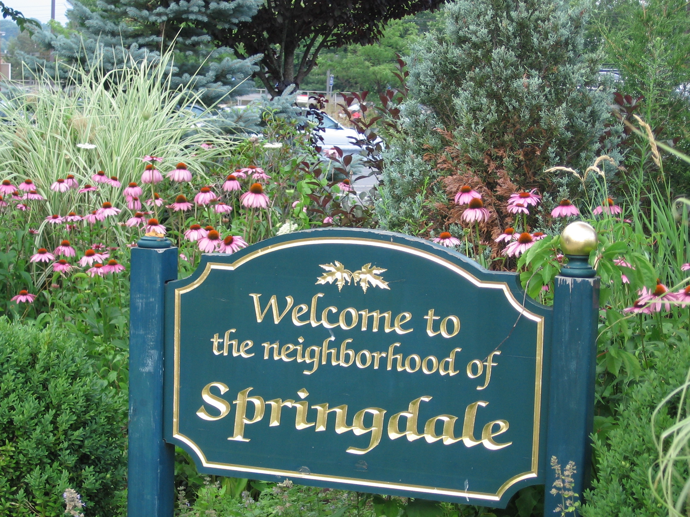 Welcome sign at Springdale Metro–North station in the Springdale section of Stamford.